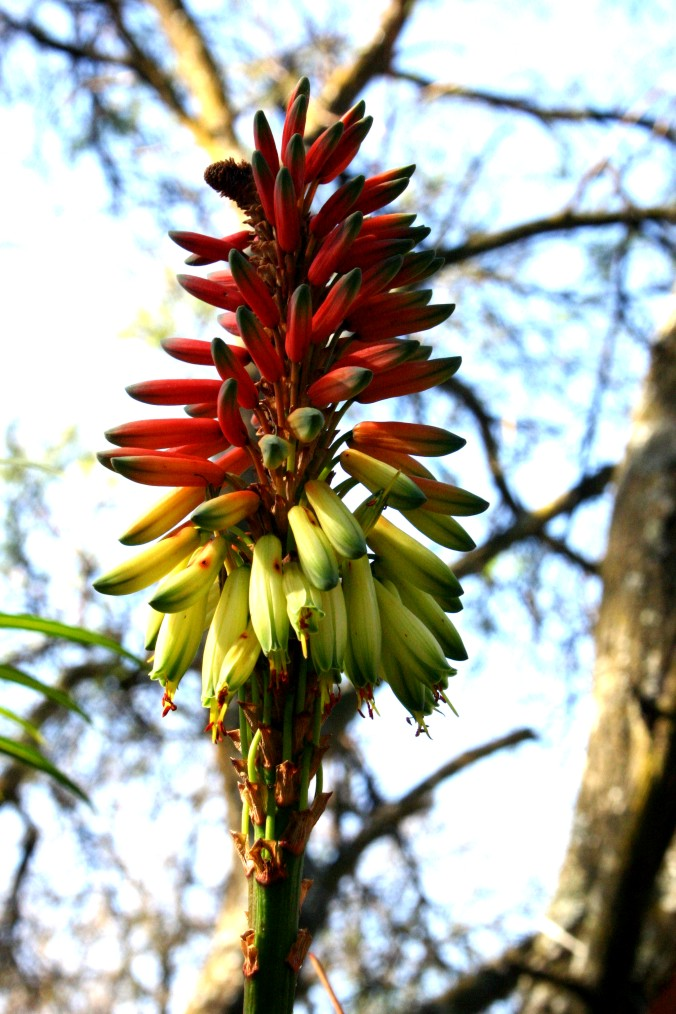 Aloe mutabilis Pillans